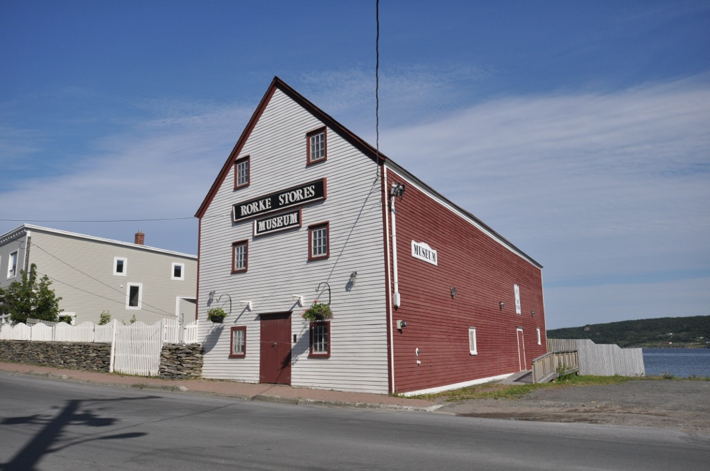 Rorke Store, Carbonear, Newfoundland. A local history museum.